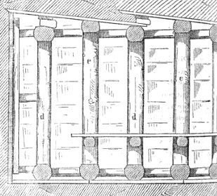 Schematic representation of a Getriebezimmerung (google translation, source translation indicates is a tunnel of some kind.)